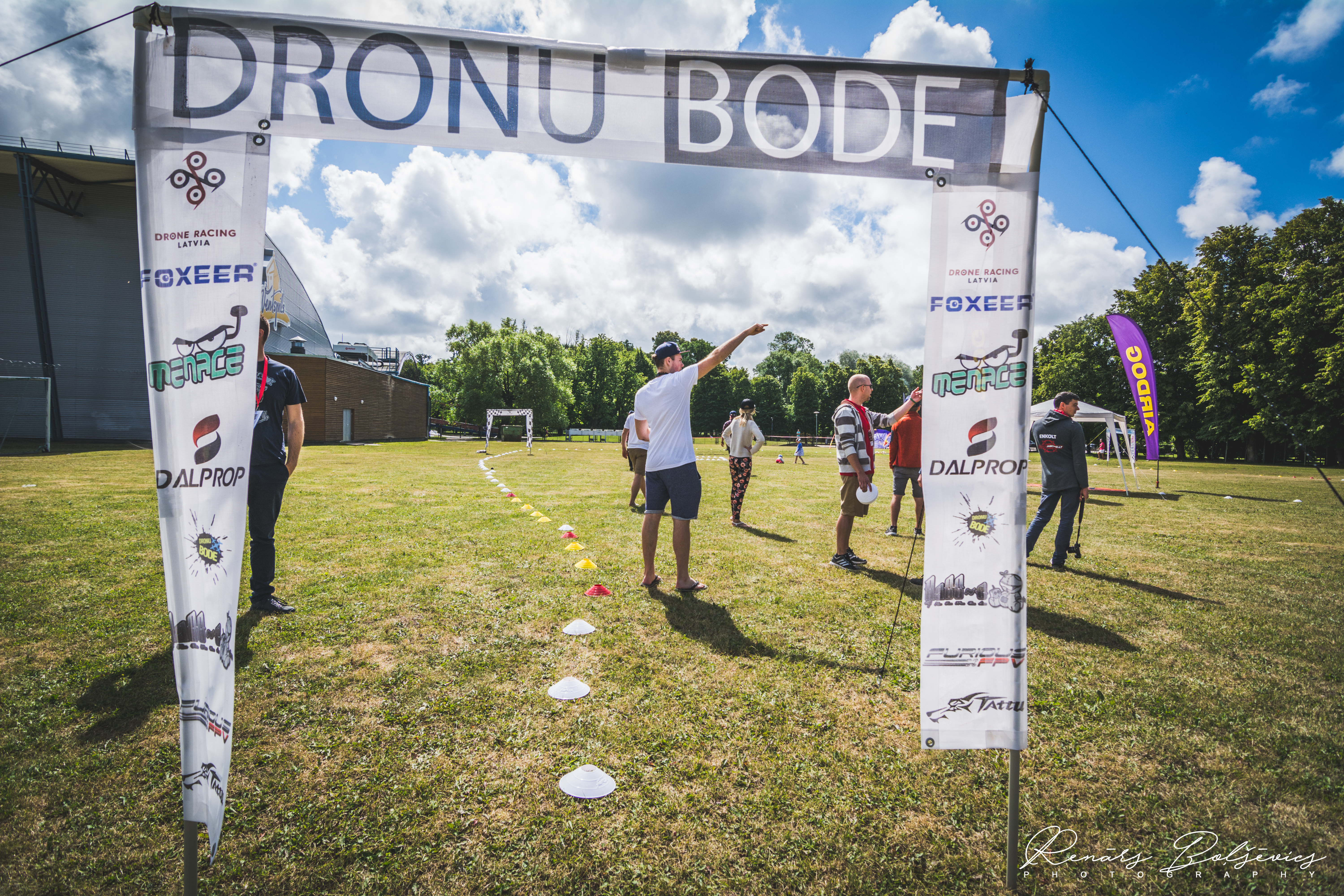 Ghetto Games King Of The Hill 2017